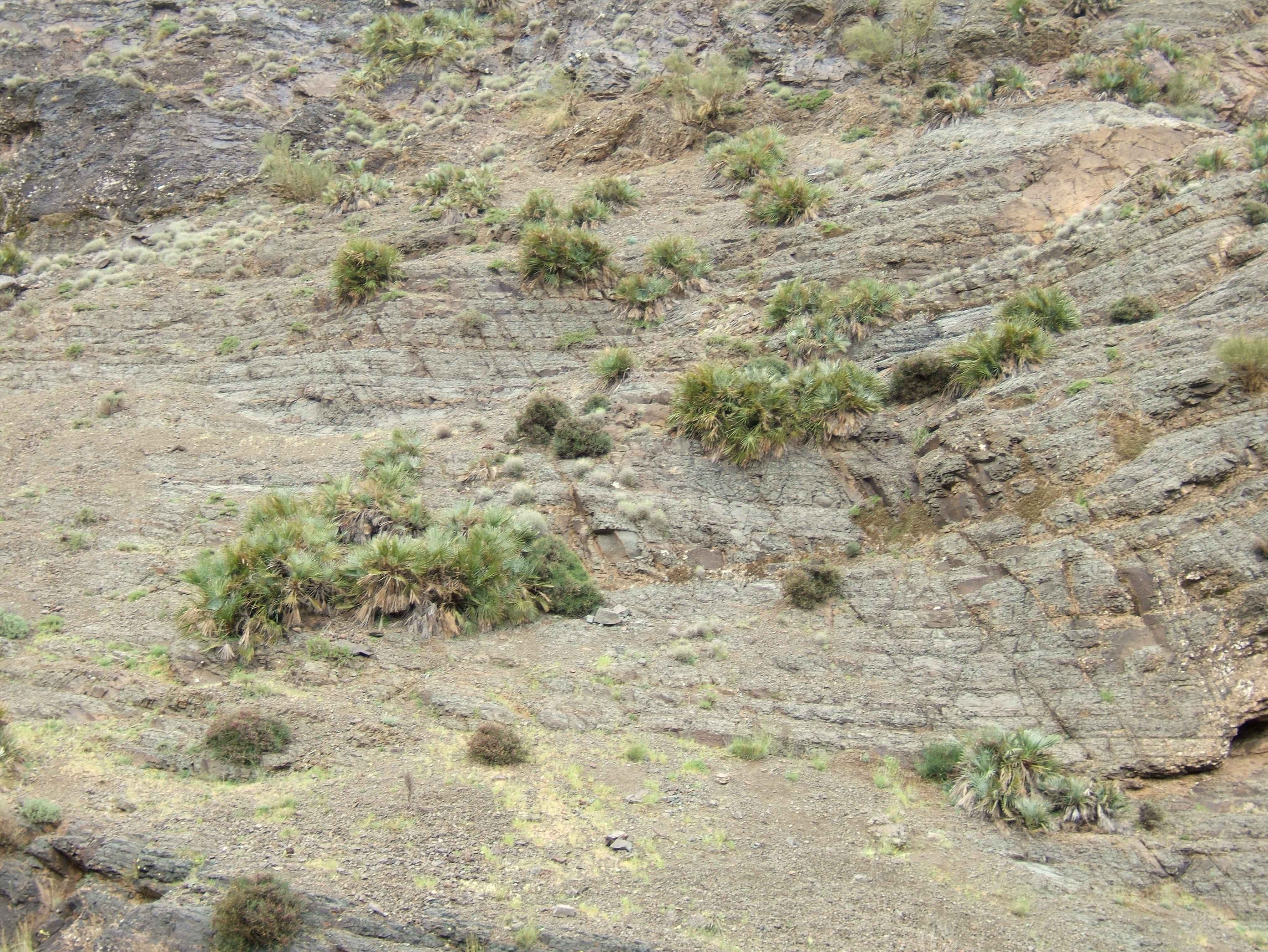 Chamaerops humilis var. argentea, habitat. Morocco: between Tizi-n-Tichka and Agouim, approx 31°N 7°20'W